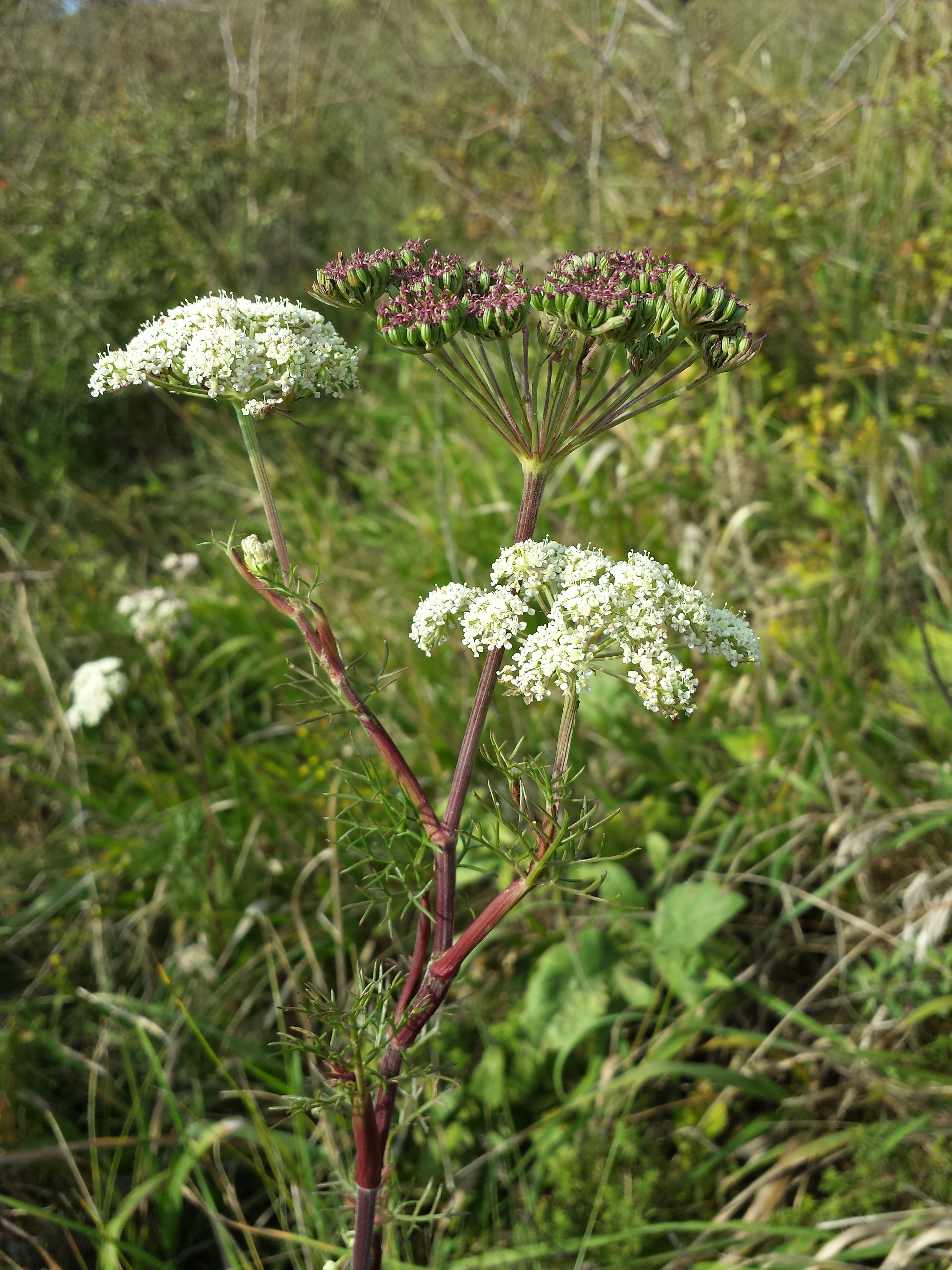 Habitus Taxon: Seseli annuum (sensu Fischer et al. EfÖLS 2008 ISBN 978-3-85474-187-9) Location: Michelberg, district Korneuburg, Lower Austria - ca. 409 m a.s.l. Habitat: semi dry grassland